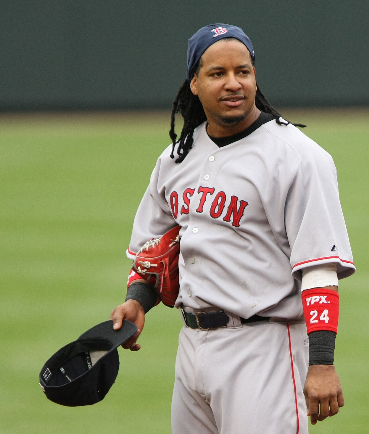 Manny Ramirez in 2008.